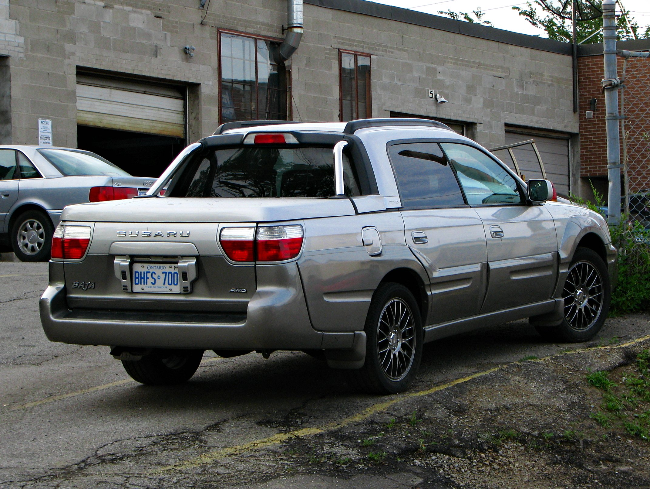 I saw one of these with an aftermarket cap on it! I can't find the image =\!